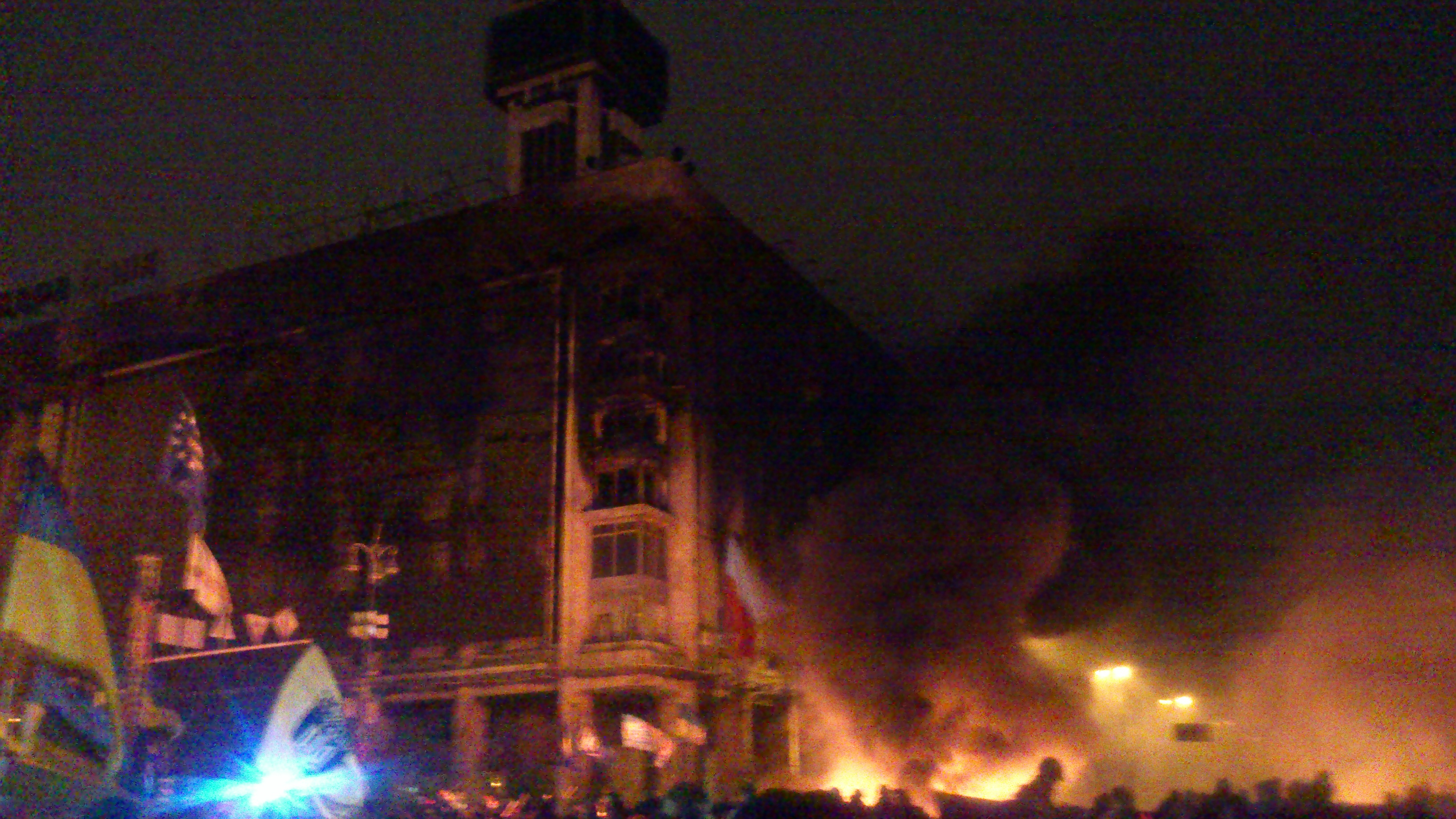 Euromaidan in Kiev February 19, 2014, night